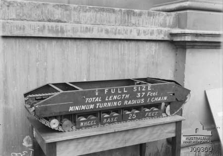 Model of a tracked fighting vehicle, made by Lancelot Eldin De Mole (1880–1950), displaying the interior and side workings of what would eventually become known as a "tank". The model was made in 1912, and De Mole's invention was the earliest practical design offered to the British War Office. The British War Office rejected De Mole's proposal. This model is held in the collection of the Australian War Memorial.